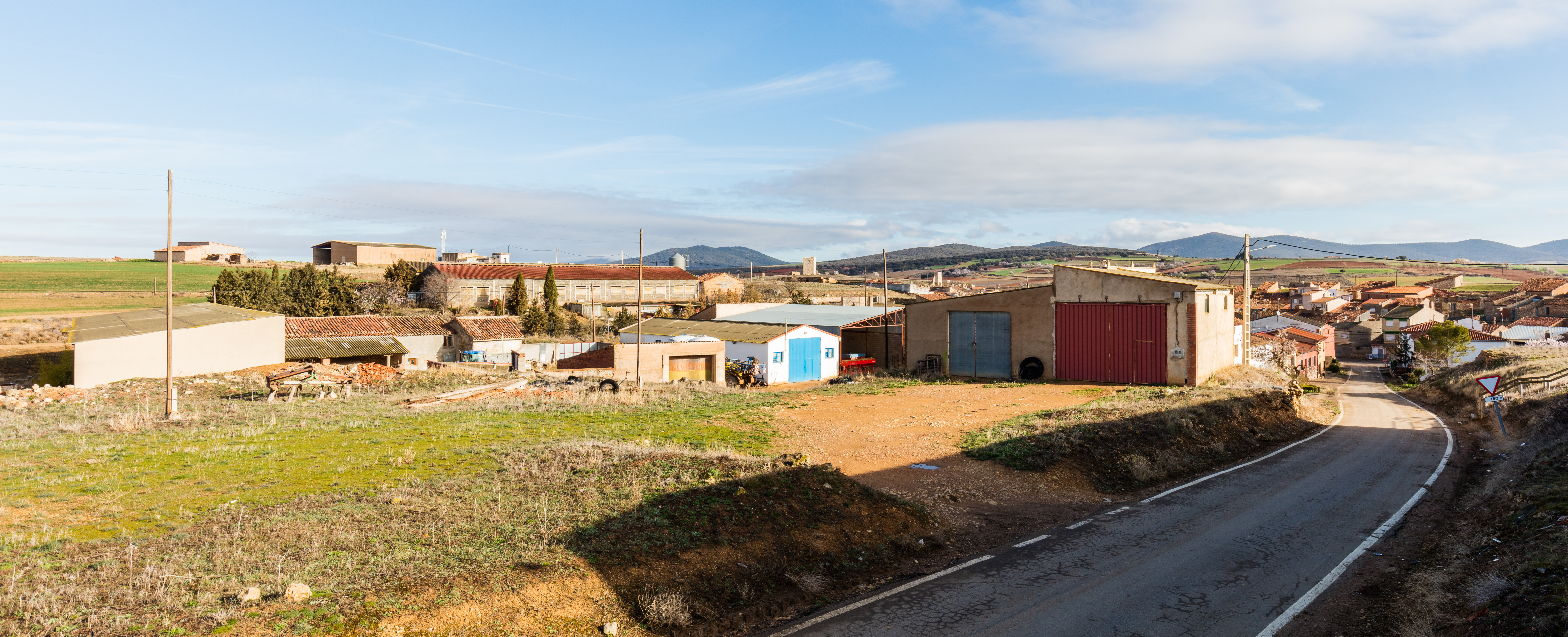 Langa del Castillo, Zaragoza, Spain